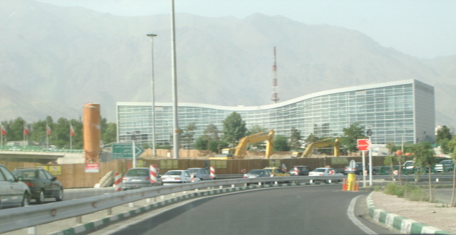 Mellat Cinema Complex